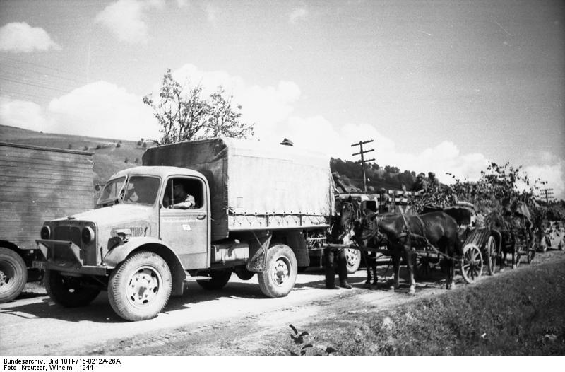 Bedford OX truck in the German hands